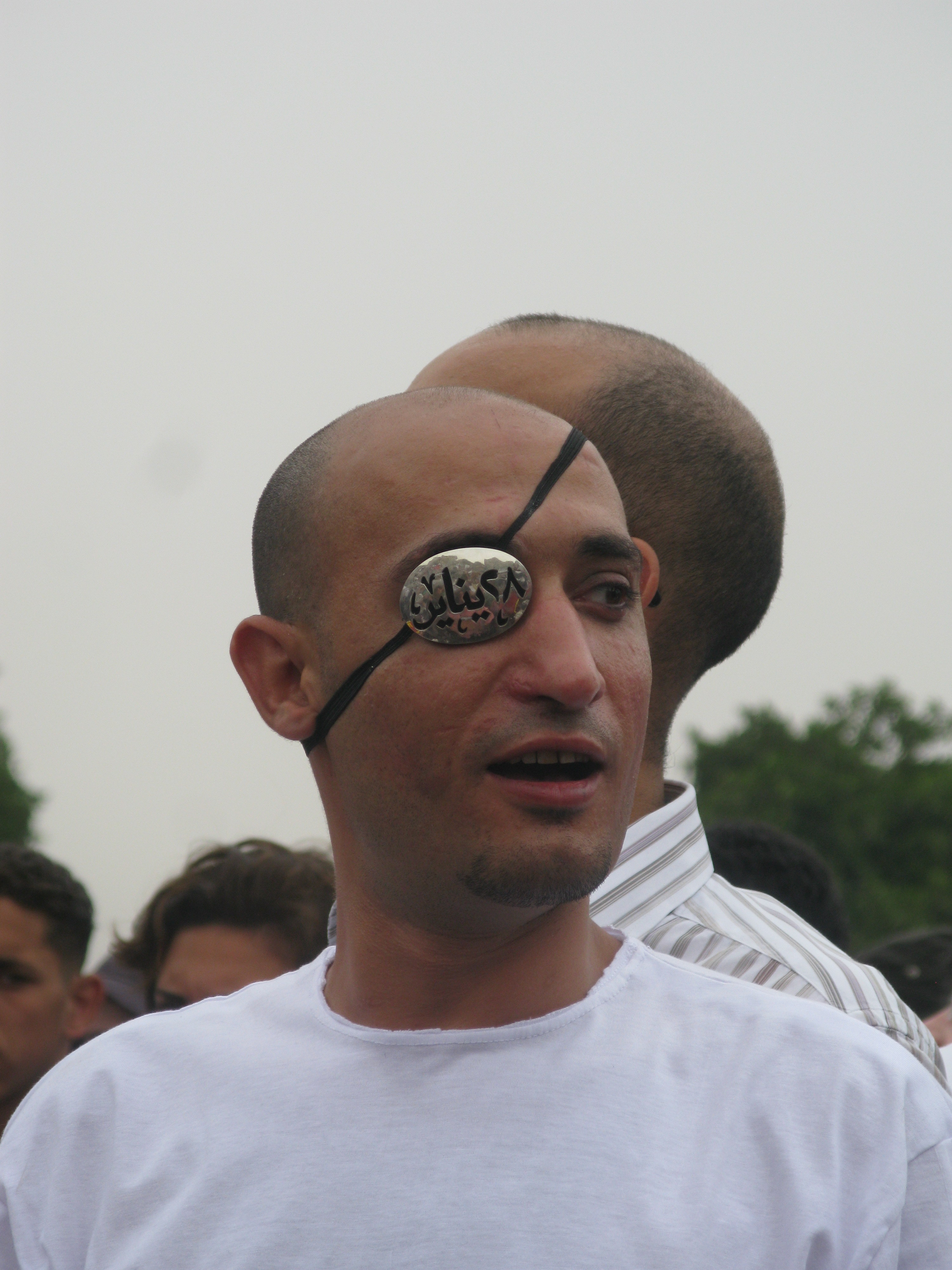 Ahmad Harara, Egypt, lost both his eyes during the revolution, this picture is before he lost his second eye.